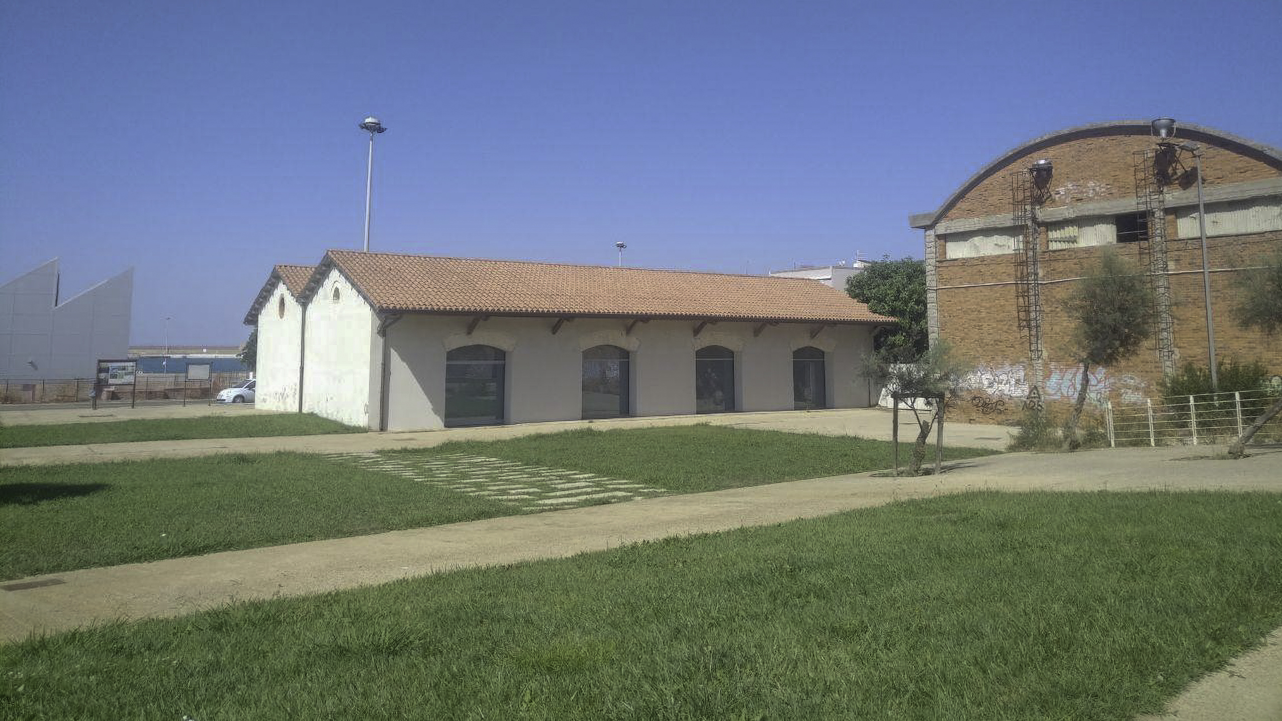 Porto Torres